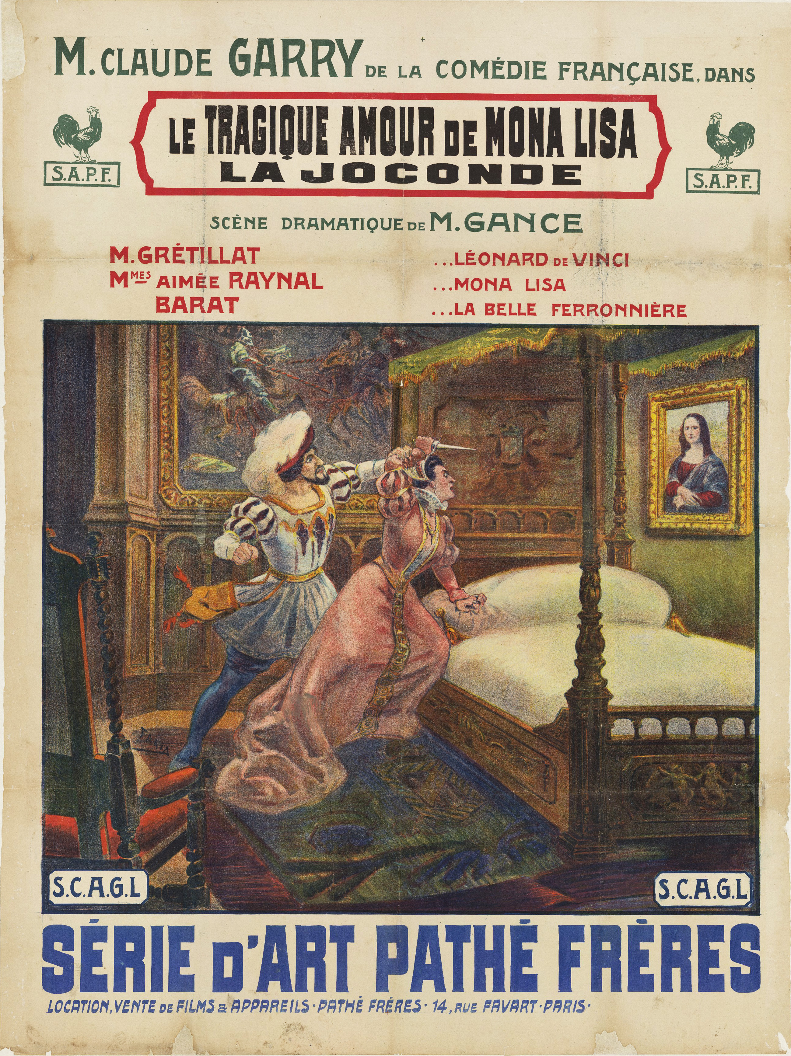 Poster for Pathé Frères (France). Film: Le tragique amour de Mona Lisa(FR, Albert Capellani, 17 May 1912, short, Pathé Frères). Writer: Abel Gance Size: 161 x 118 cm Distributor: Internationaal Filmverhuurkantoor Jean Desmet (Amsterdam).